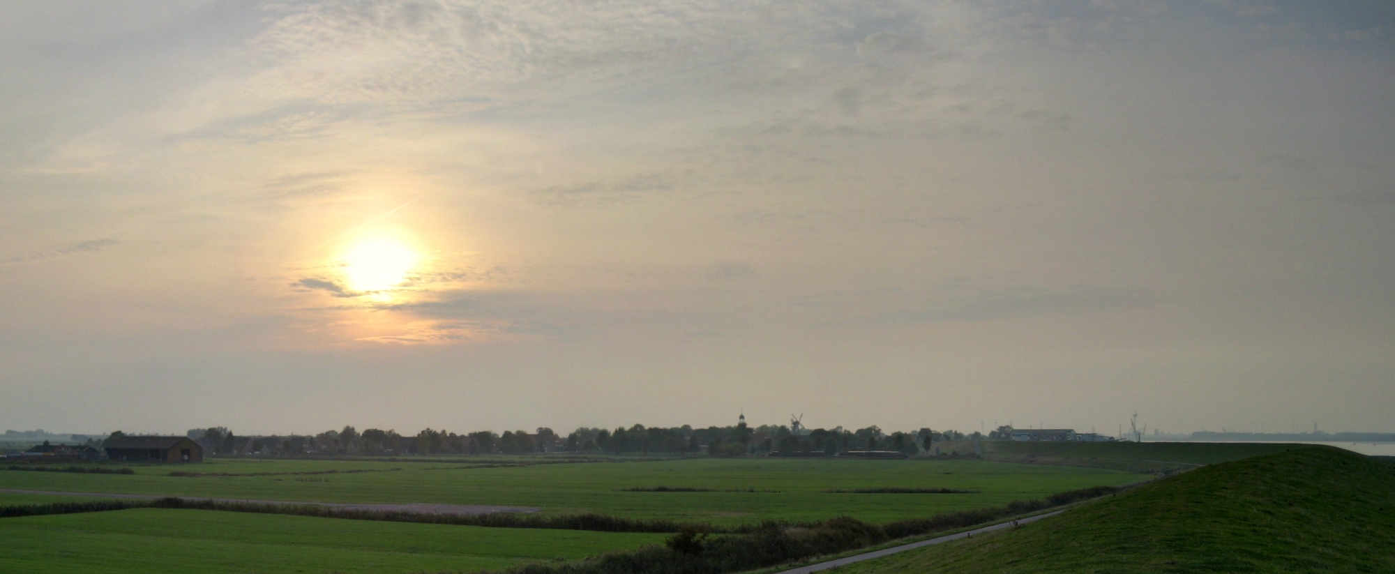 The German village of Ditzum (Jemgum, Leer, Niedersachsen), seen from the east. In the background to the right the city of Emden can be seen.